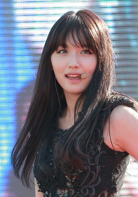 T-ae of Rania at the Hyosung Angel Village Festival, 4 October 2013